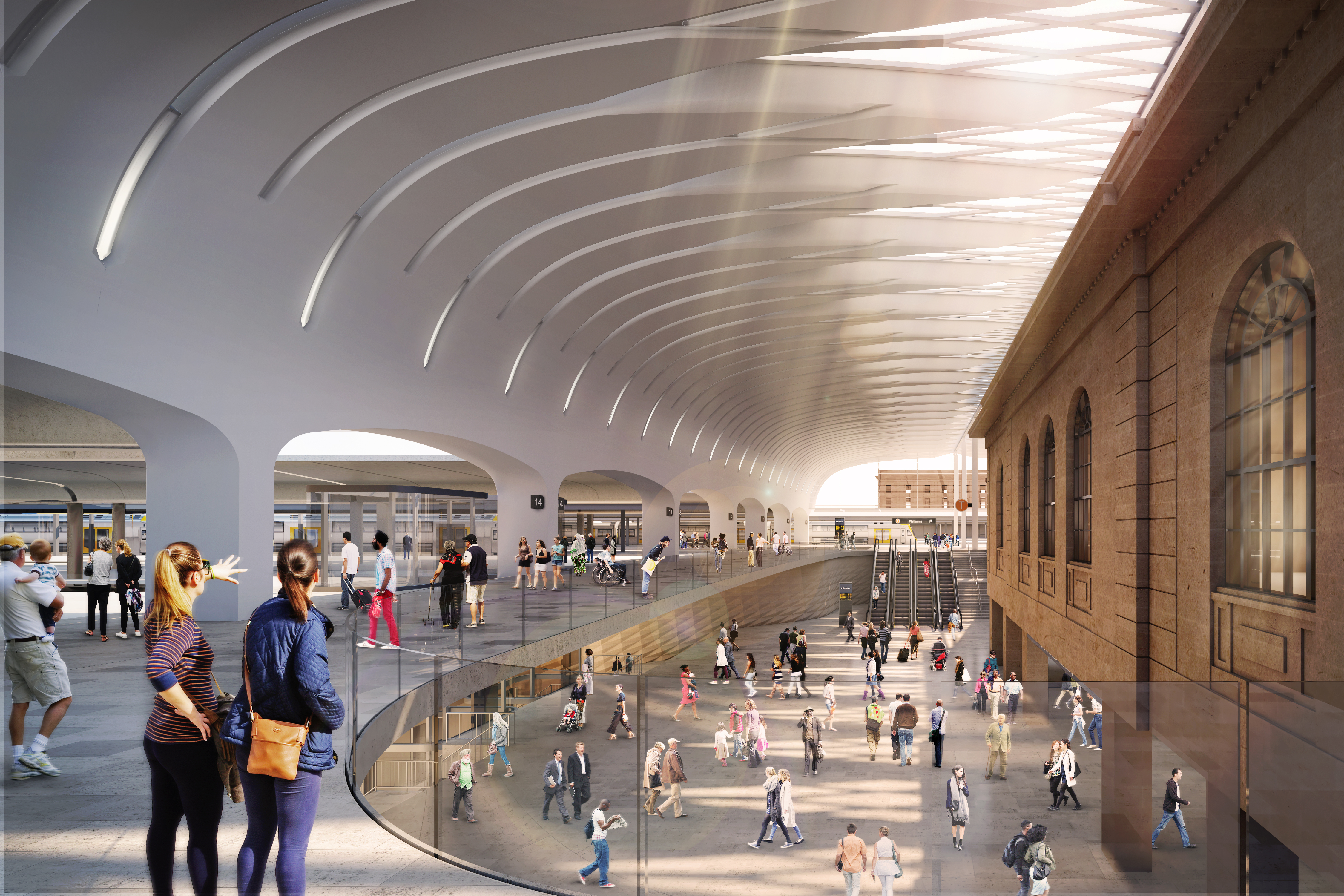 CGI view of interior of Sydney Central Station